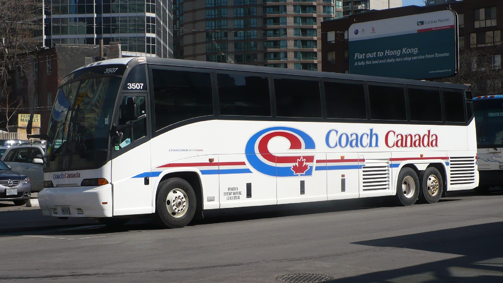 Coach Canada #3507 on the street opposite the Toronto Coach Terminal